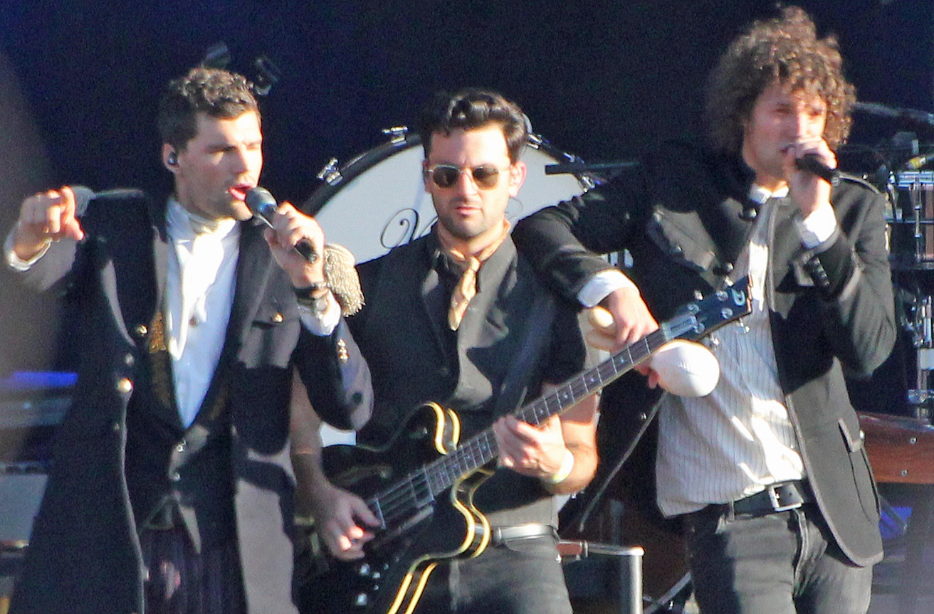 For KING AND COUNTRY performing at Big Church Day Out (South) at Wiston House, West Sussex, UK in May 2018.